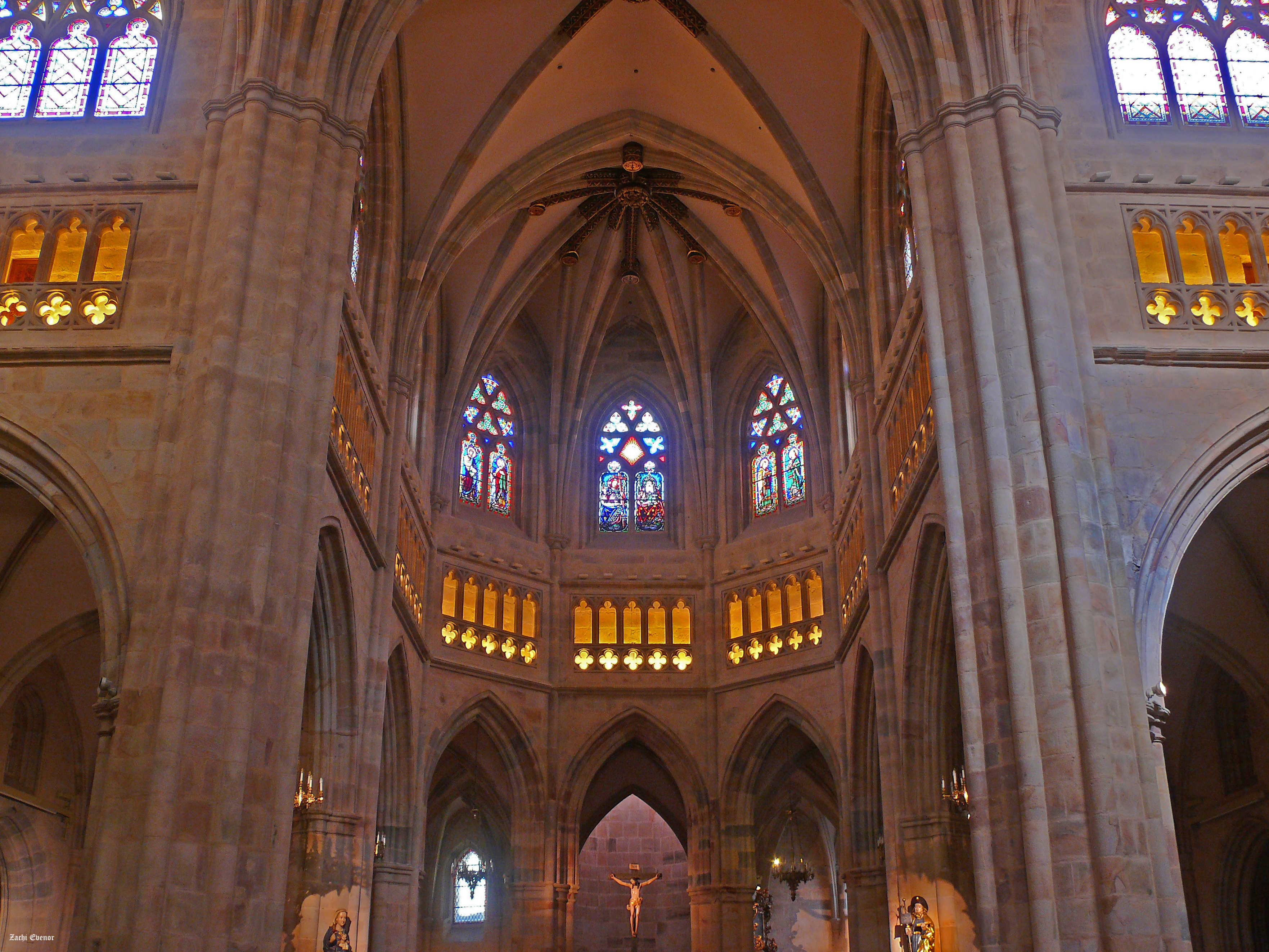 Santiago Cathedral (Bilbao), interior